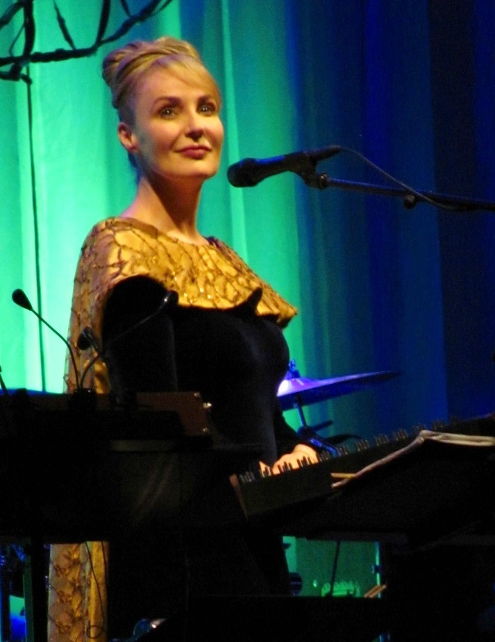 Lisa Gerrard at Beacon Theater, August 2012